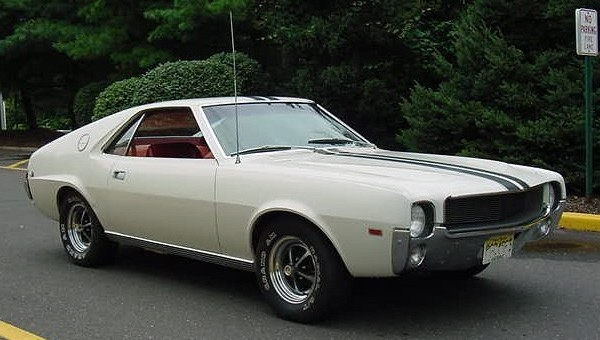 1968 AMX by American Motors Corporation (AMC) a GT-type "muscle" two-seat sports coupe. Frost White (paint code - P72A) with red interior. This car has the optional "Go Package" that included the racing stripes and high-performance components. The chrome wheels are correct for the year, but would would have come from the factory with red-stripe tires.